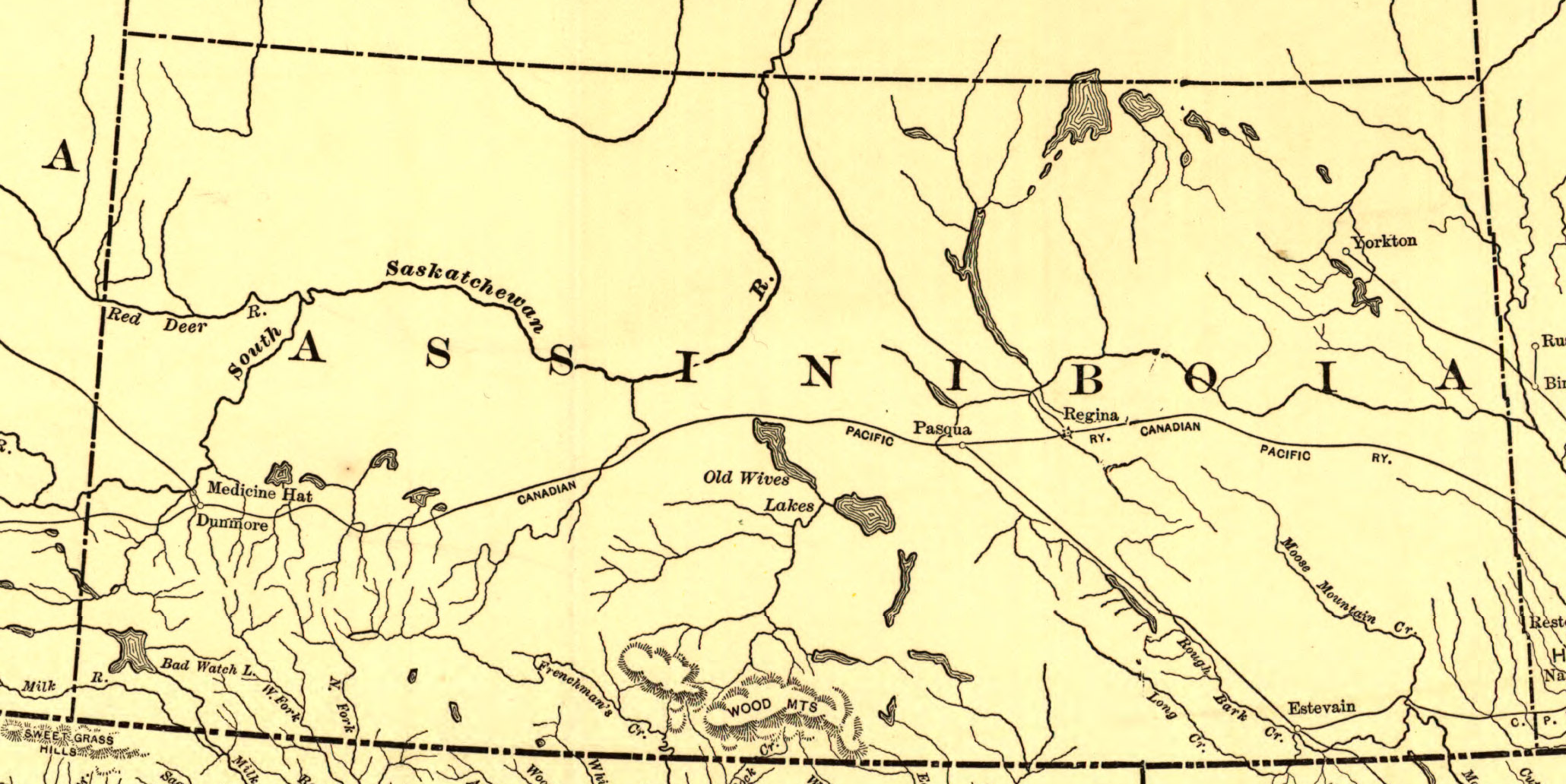 Derivative of File:Northern Pacific Railroad map circa 1900.jpg